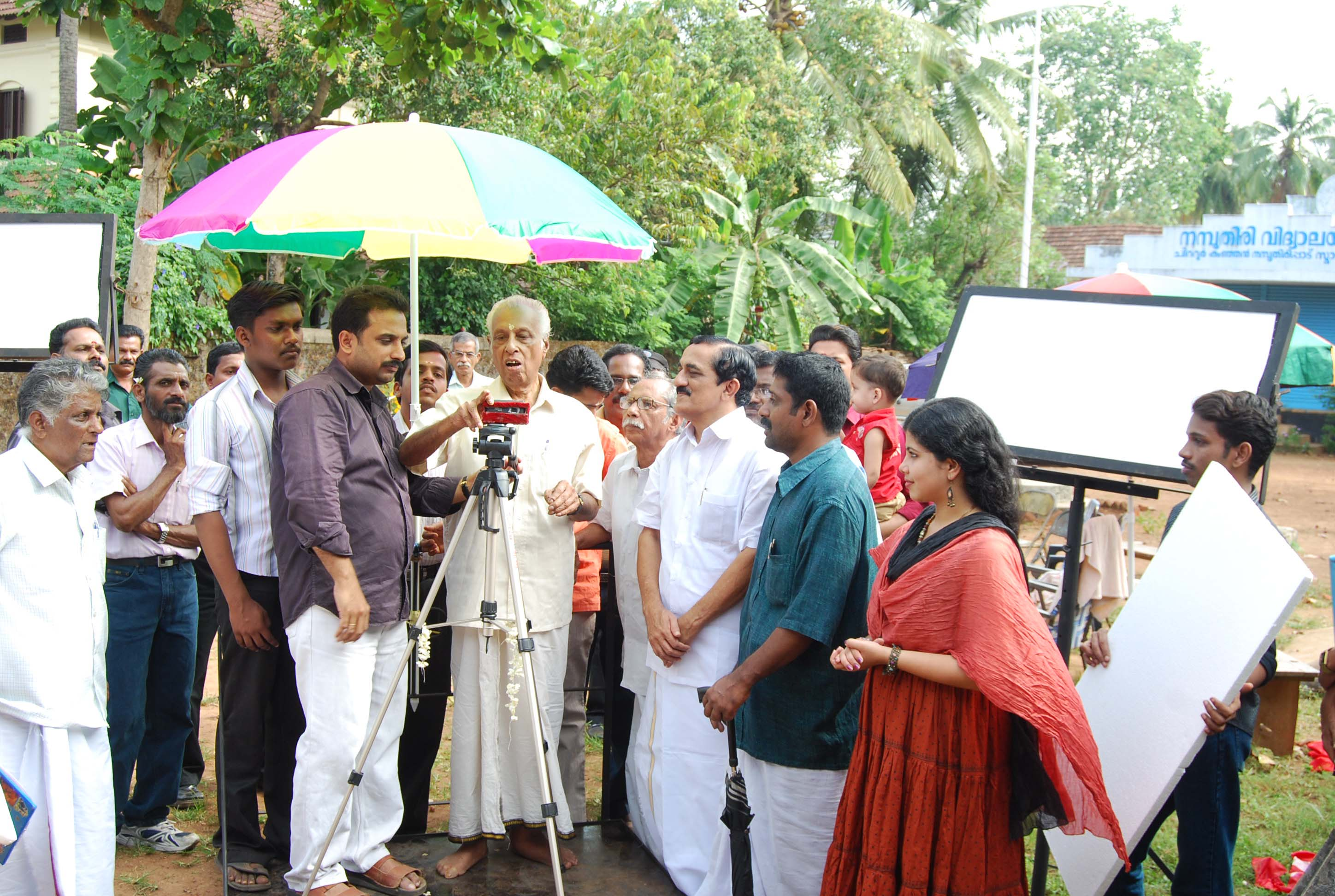 jalachhayam was swiched on by p.ramadas